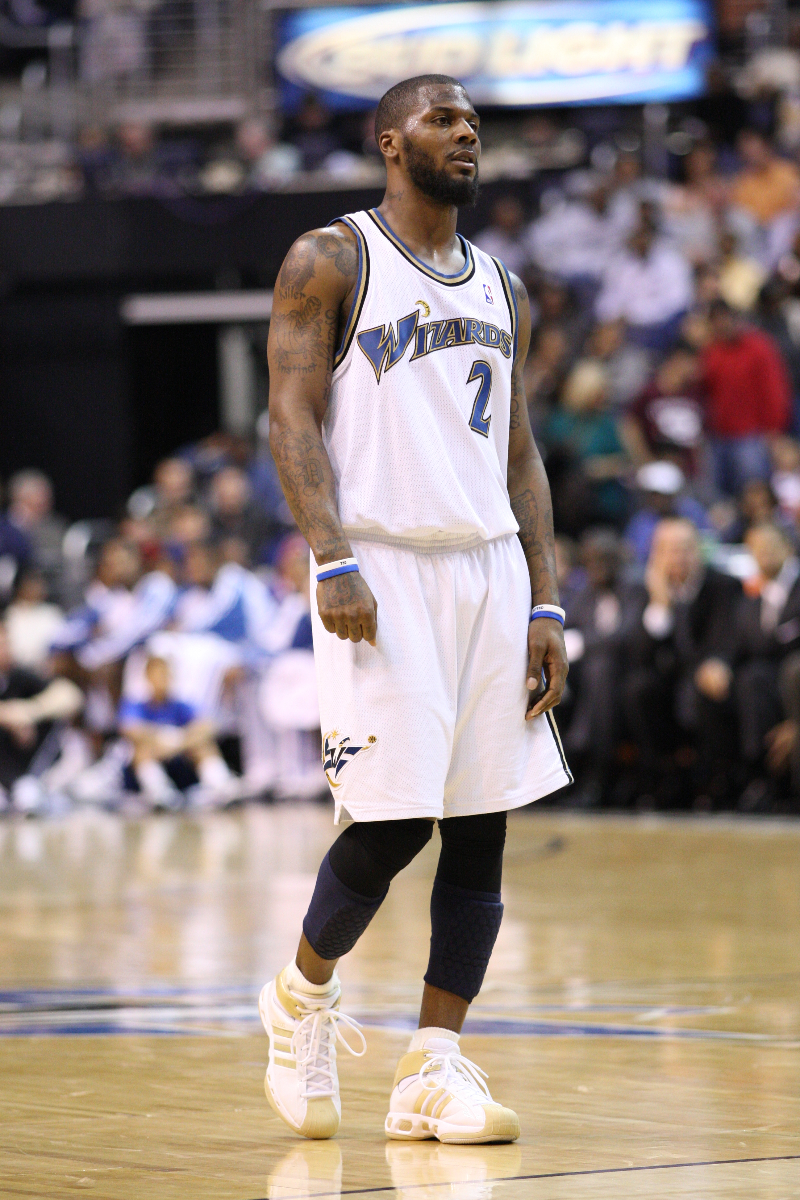 DeShawn Stevenson with the Wizards